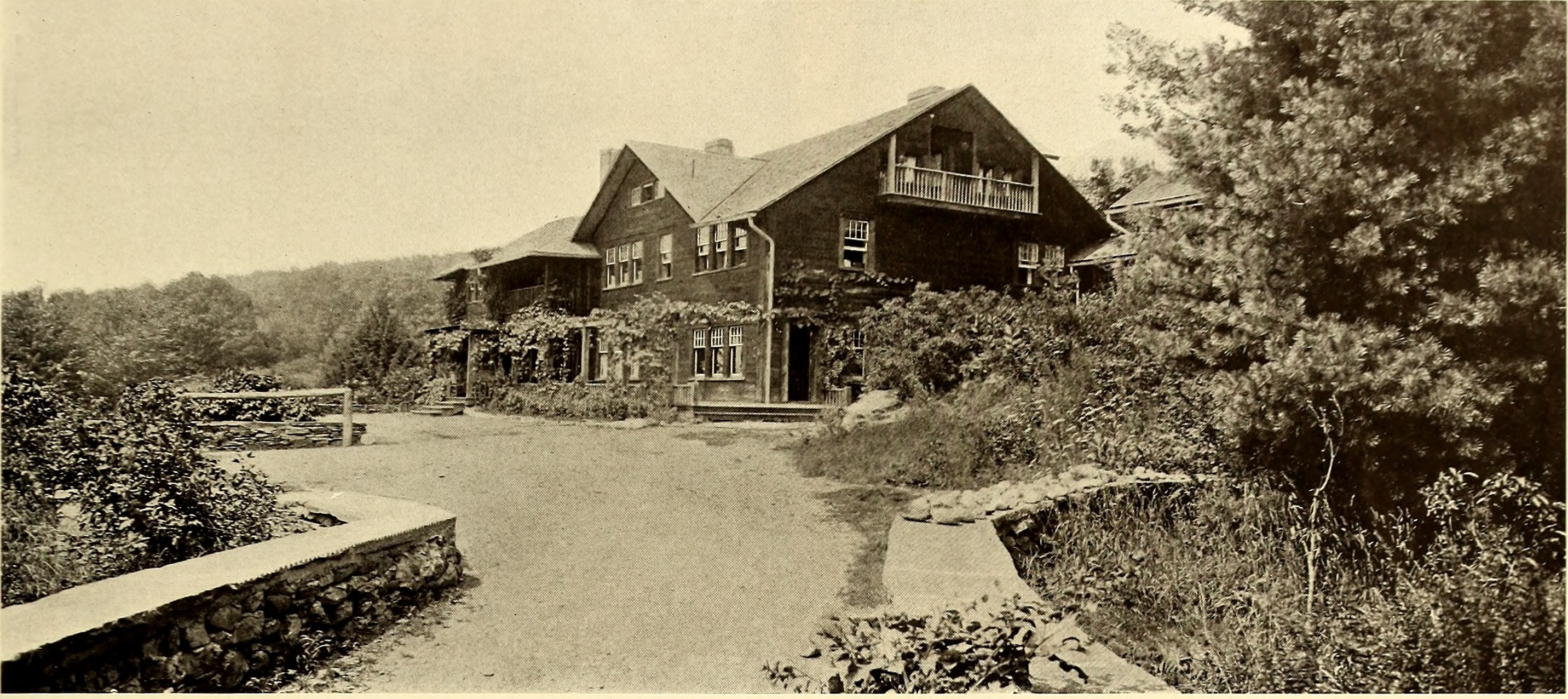 Title: American homes and gardens Year: 1905 (1900s) Authors: Subjects: Architecture, Domestic; Landscape gardening Publisher: New York : Munn and Co Text Appearing Before Image: October, 1909 AMERICAN HOMES AND GARDENS 389 Text Appearing After Image: *Tis a real city of the forest The Byrdcliffe Colony of Arts and Crafts By Poultney Bigelow Photographs Copyrighted by Jessie Tarbox Beals